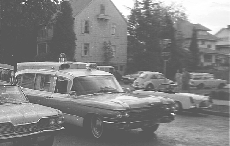 Photo by R. W. Rynerson, June 1967. A privately-operated ambulance responds to the scene of a minor injury auto accident at NE 21st & Thompson in Portland, Oregon. At the time, this Cadillac conversion was the favored choice for professional emergency transportation.